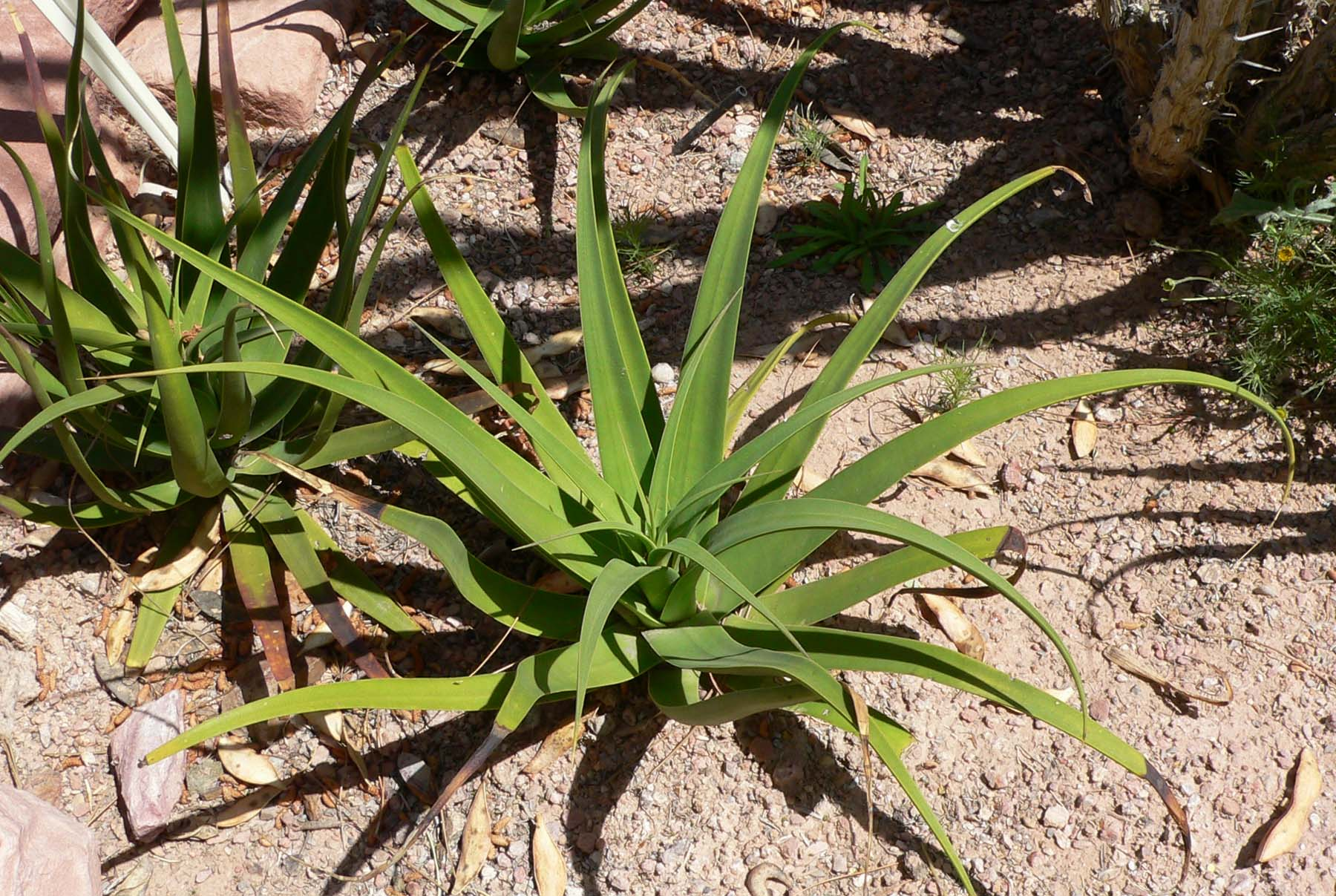 Photo of Agave bracteosa (spider agave) at the Desert Demonstration Garden in Las Vegas, Nevada